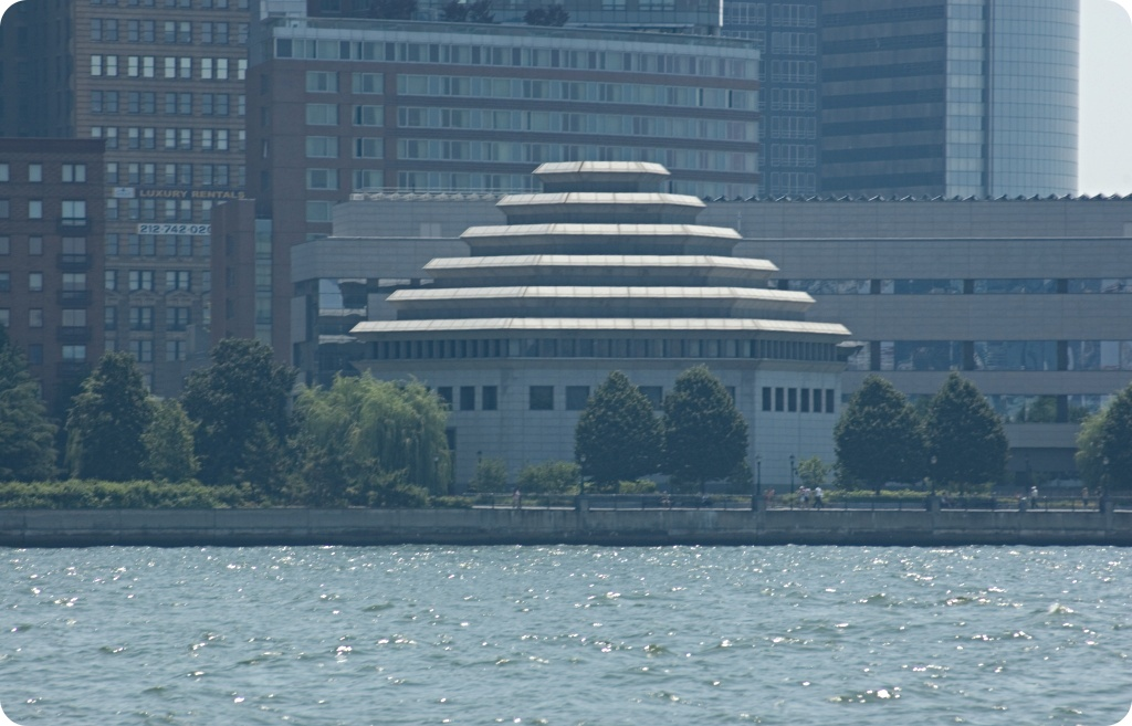 They've got a prime spot on the water, with the Battery City Park walk going right by.